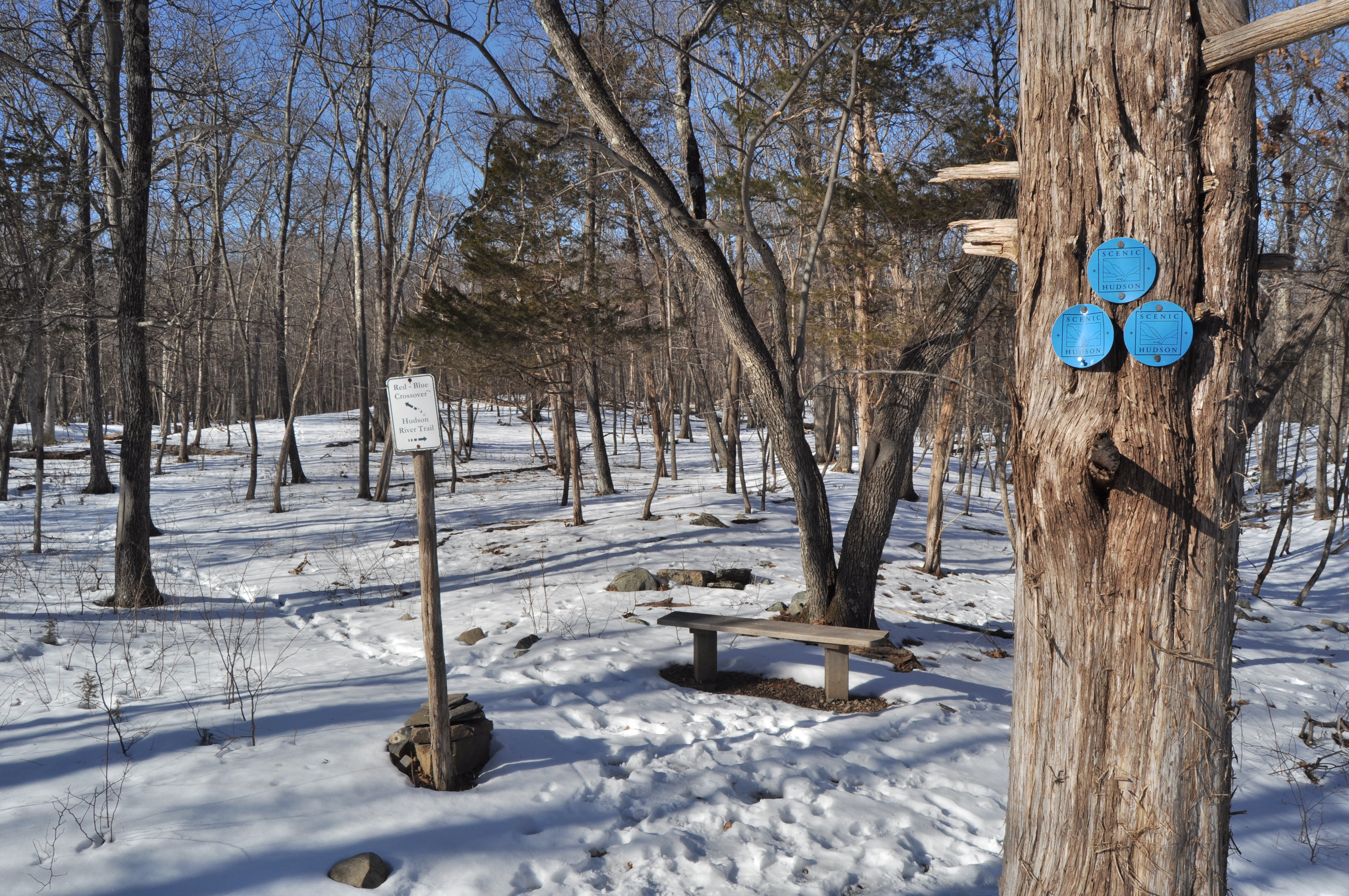 Scenic Hudson's Black Creek Preserve along the Hudson River in winter.